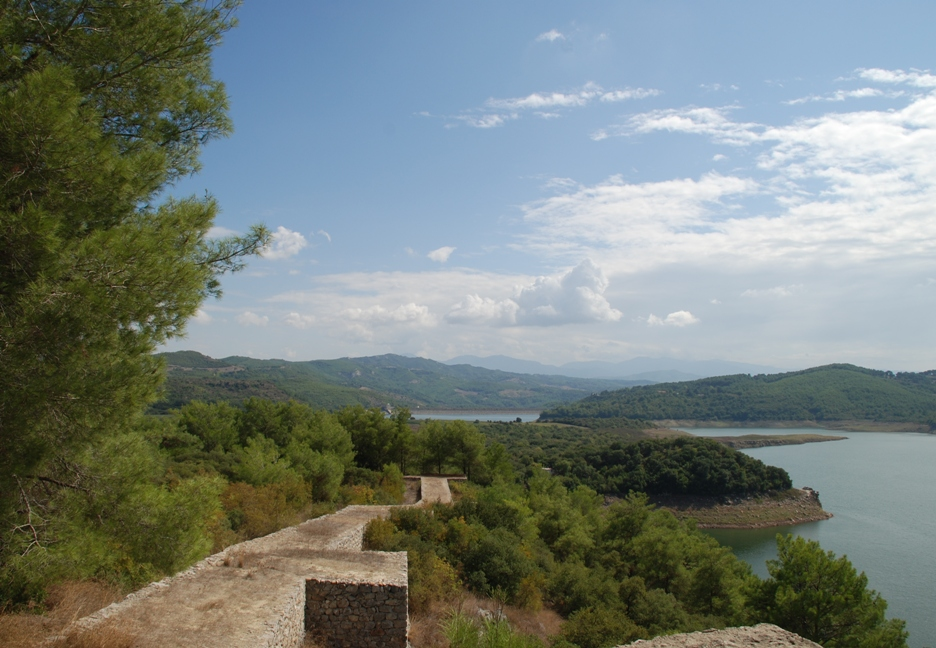 Citywall Karatepe